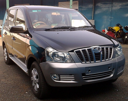 La sillax bellacax